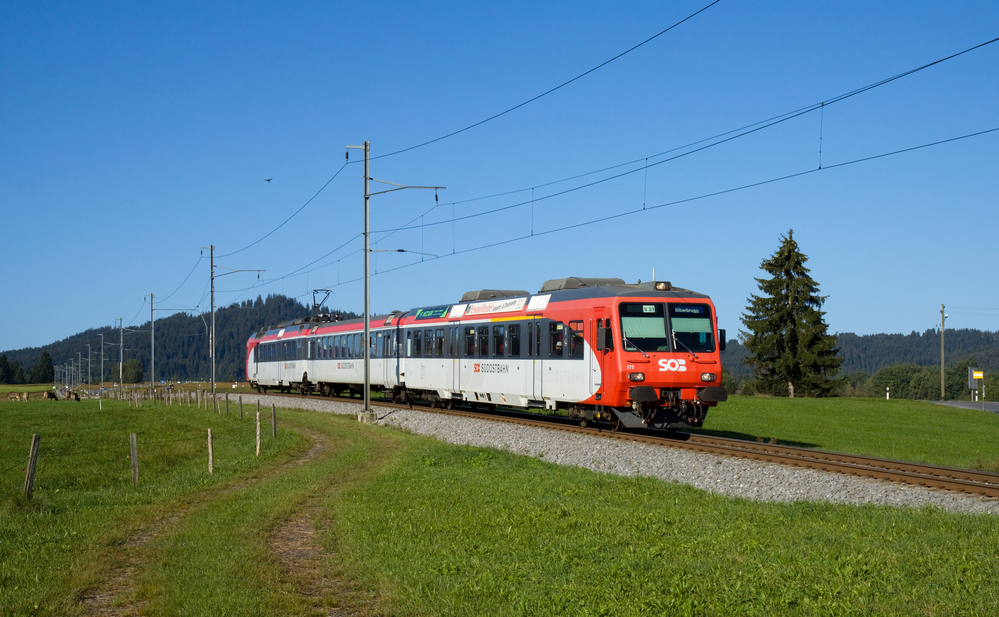 SOB "Neuer Pendelzug", largely identical to the SBB "Kolibri" NPZ (RBDe 560) trainsets, on the ZVV S31 service from Arth-Goldau to Biberbrugg, between Altmatt and Biberbrugg.